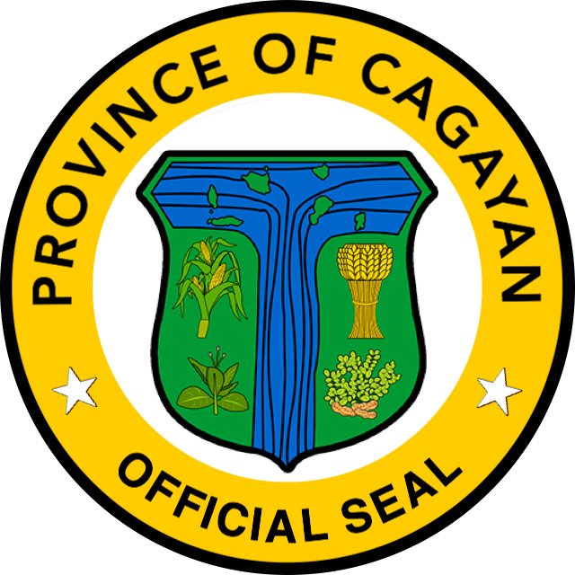 Updated seal of the province of Cagayan.